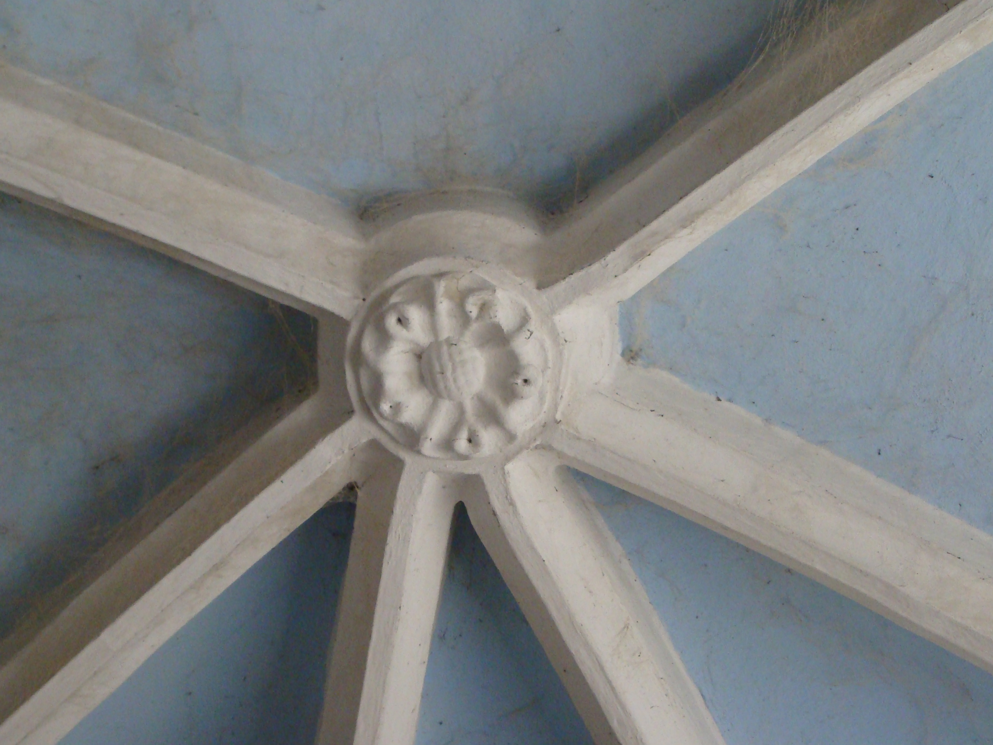 Saint Demetrius church in Dipșa (former lutheran church), Bistrița-Năsăud county, Romania